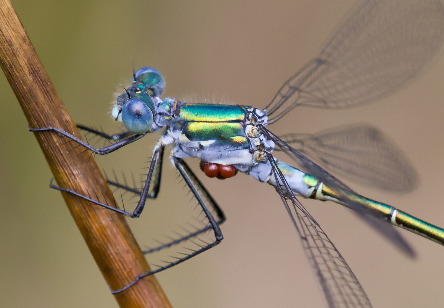 Male specimen of the Robust Spreadwing / Scarce Emerald Damselfly (Lestes dryas), infested with mites (red "balls"). According to literature, these are probably larvae of Arrenurus papillator.